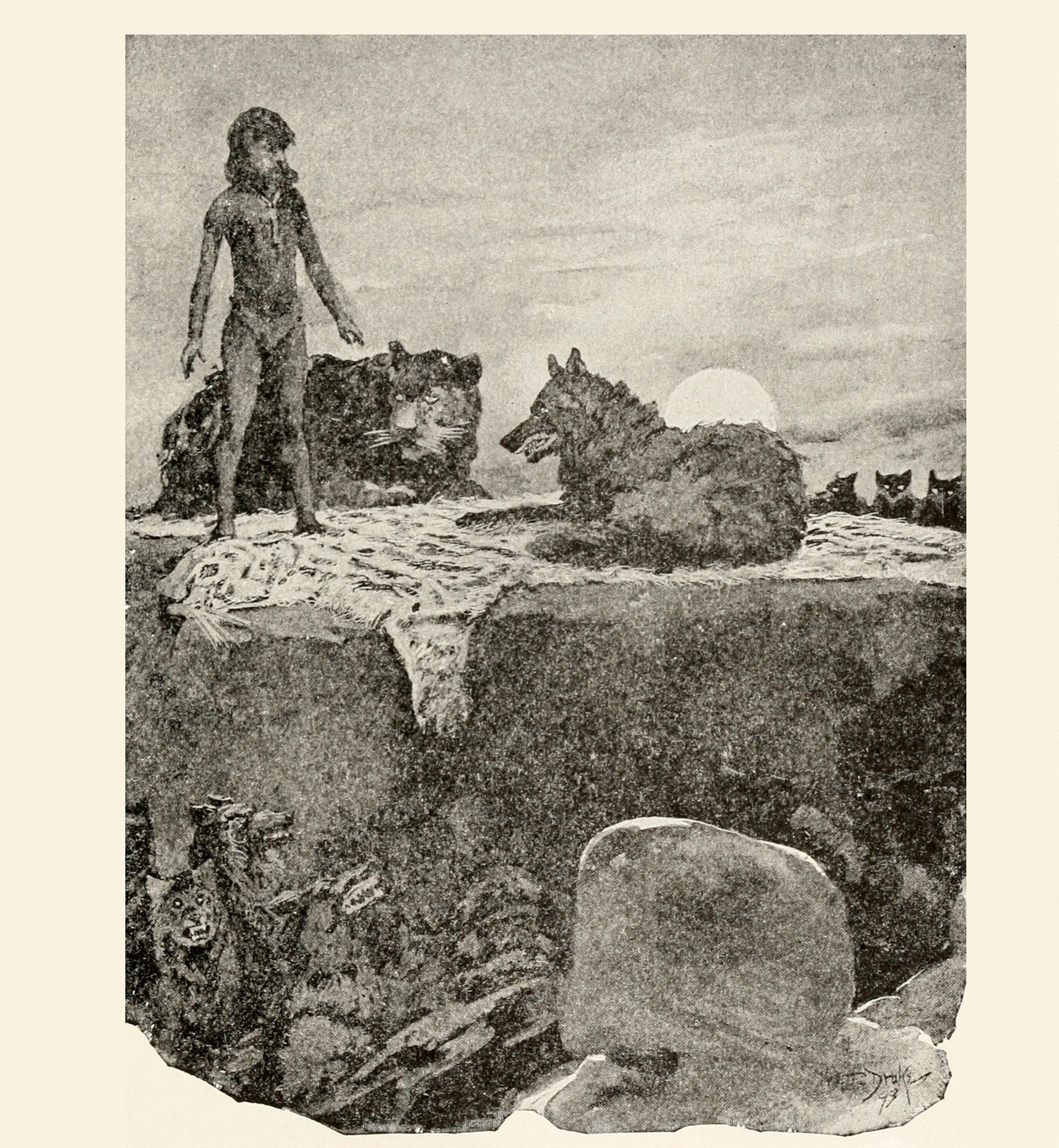 „They clambered up the Council Rock together, and Mowgli spread the skin out on the flat stone.“